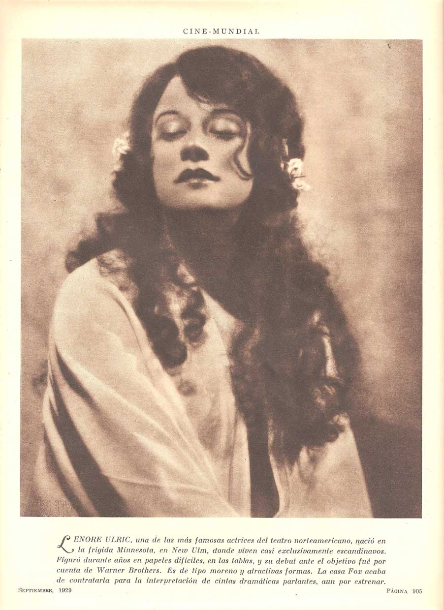 Publicity photo of Lenore Ulric for Argentinean Magazine. (Printed in USA)